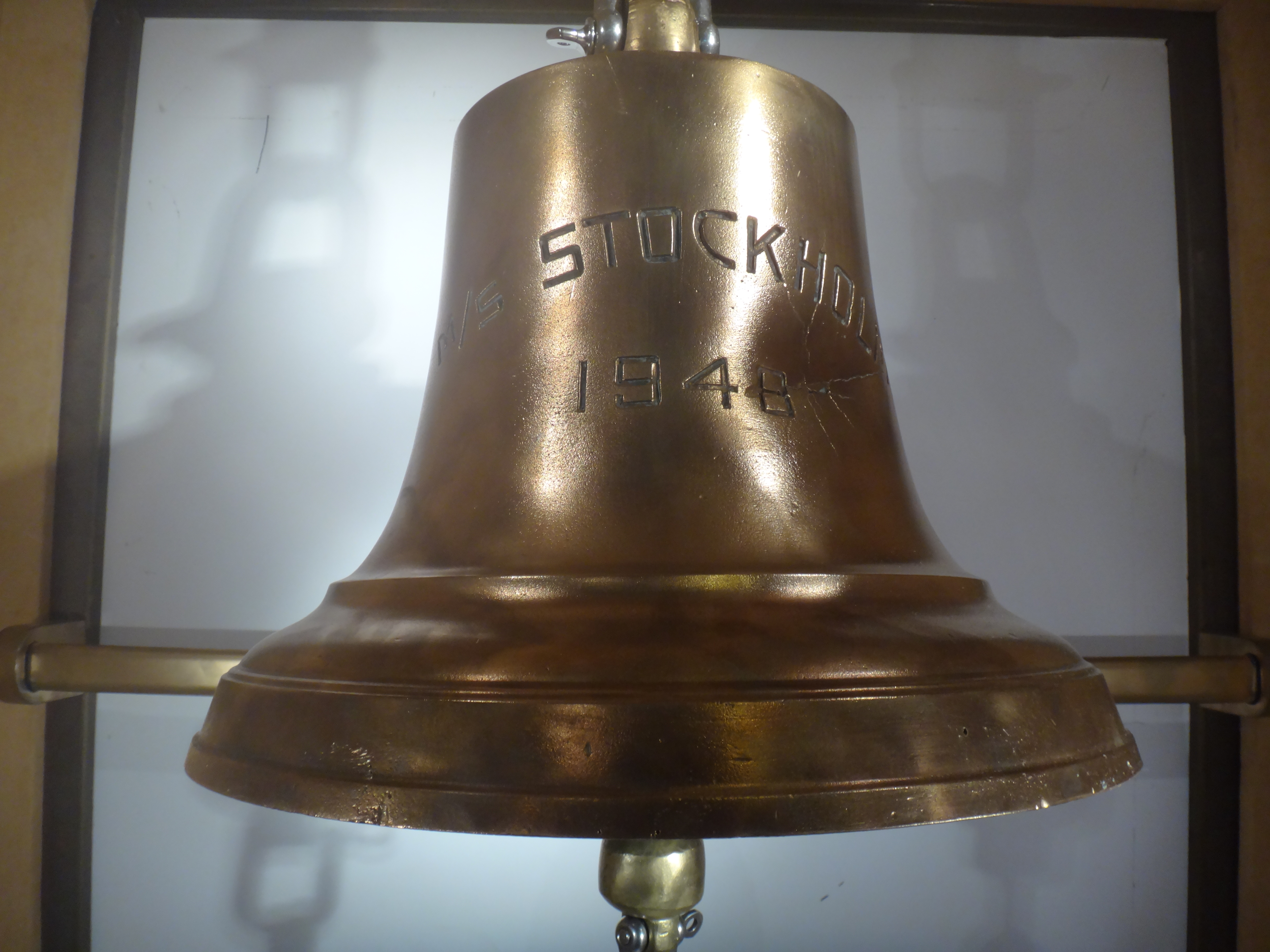 Bell from the bow of the m/s Stockholm salvaged form the wreck of the Area Doria